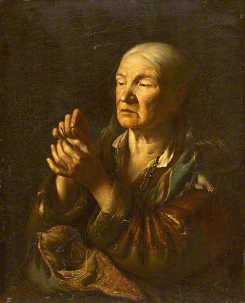 Wincent Leopold Slendzinski, Grandmother Threading a Needle (1860). Lithuanian Museum of Arts